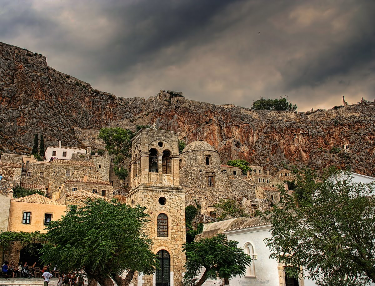 Monemvasia square